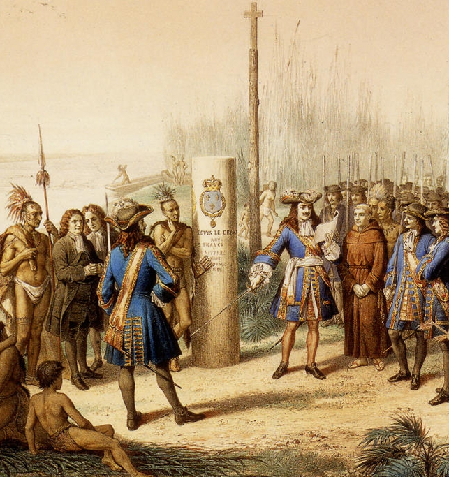 Lasalle claiming mouth of Mississippi for France. Detail.